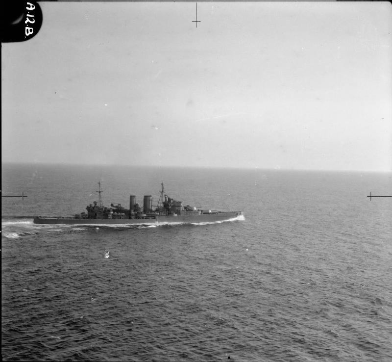 HMS Exeter Underway.